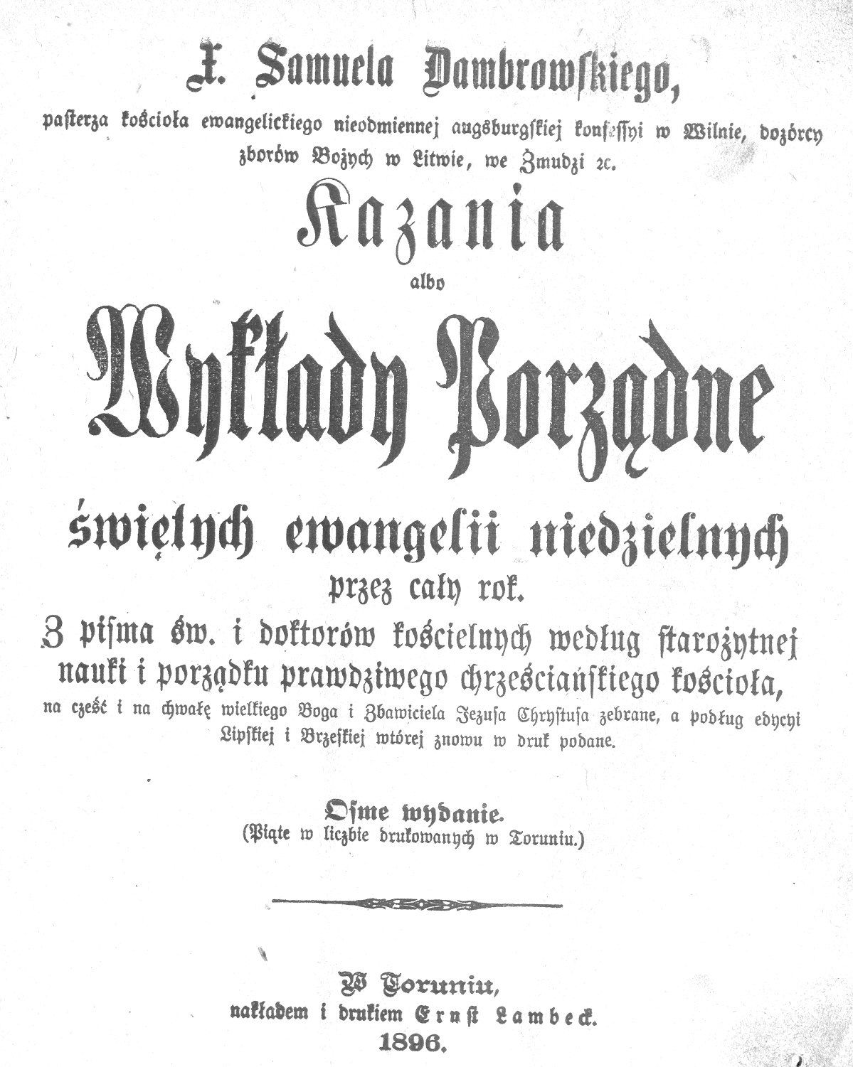 Samuel Dambrowski, Kazania albo wykłady porządne... (postil), title page